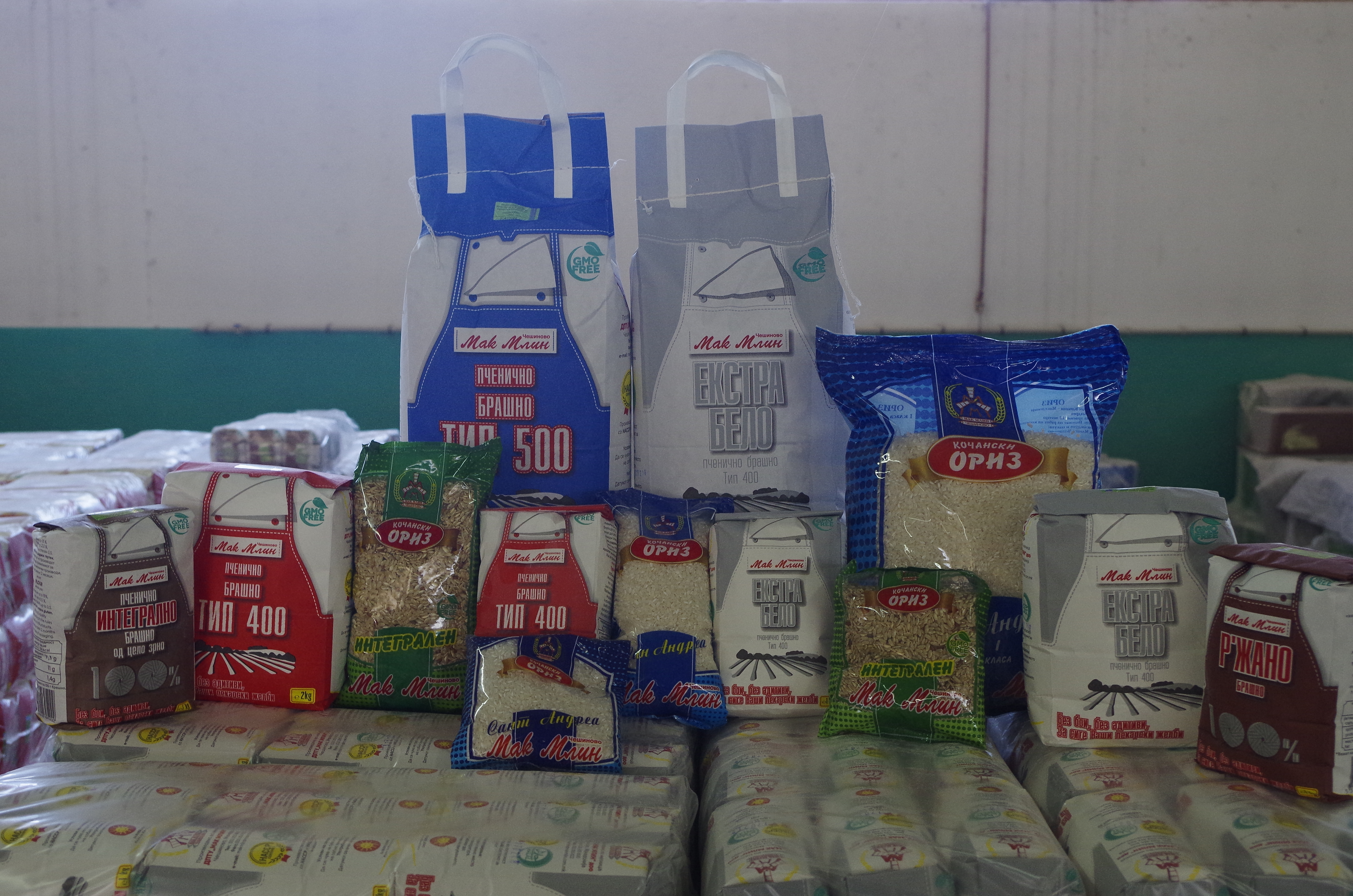 Factory for hulling, shelling and packing rice in Cheshinovo, Macedonia